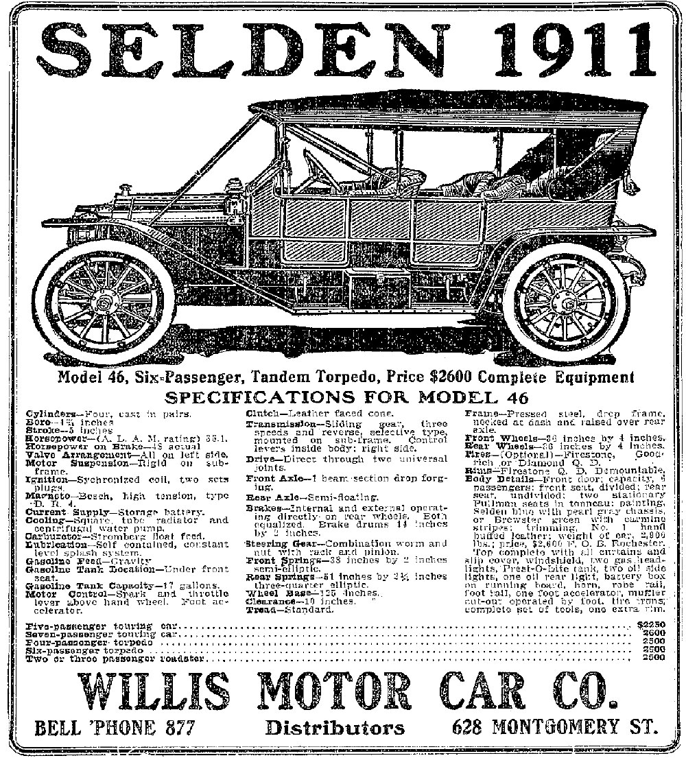 A 1911 Selden Advertisement - Model 46, Six-passenger, Tandem Torpedo, Price $2,600